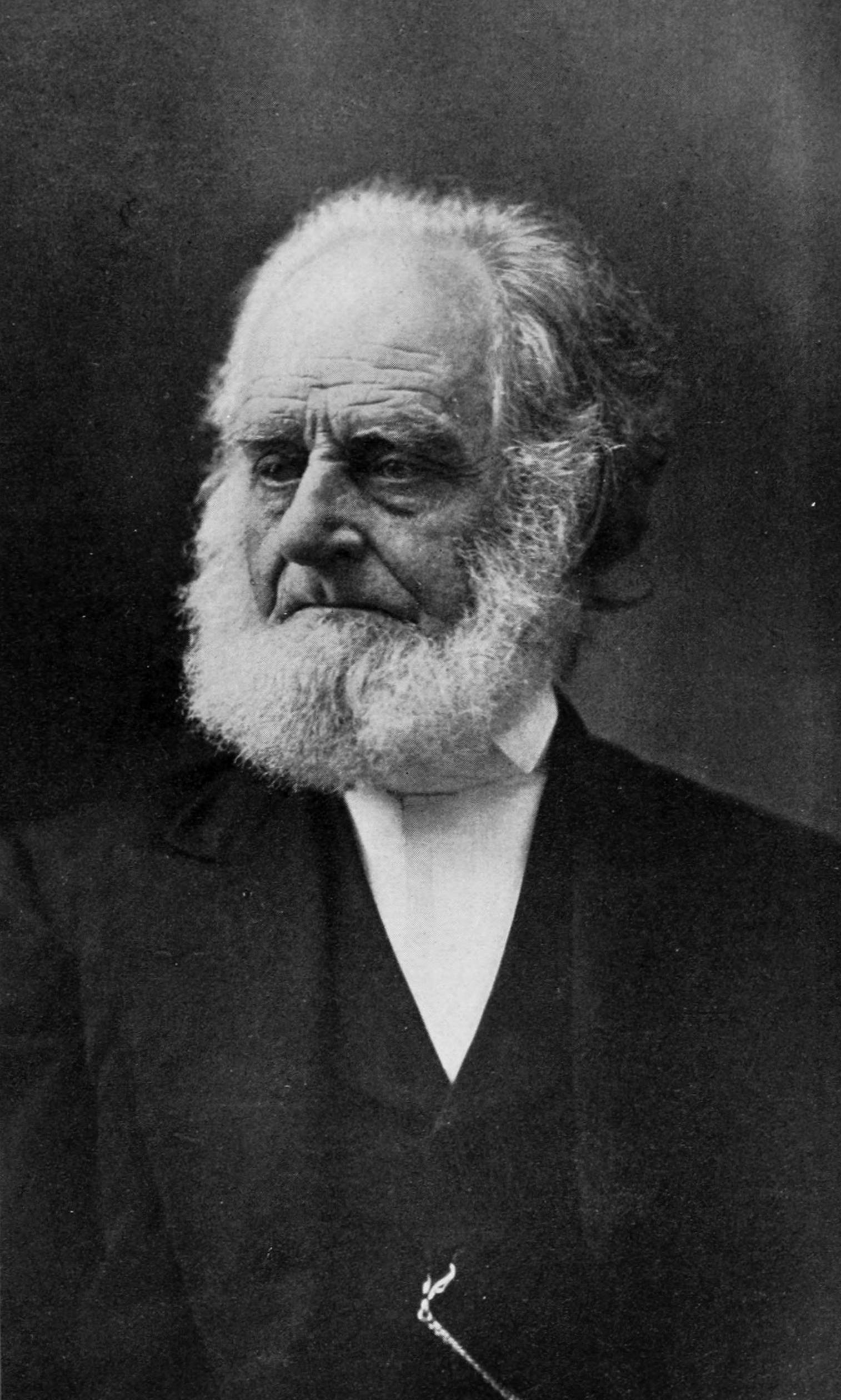 Portrait of Leonard Bacon from Timothy Dwights Memories of Yale Life and Men (1903)